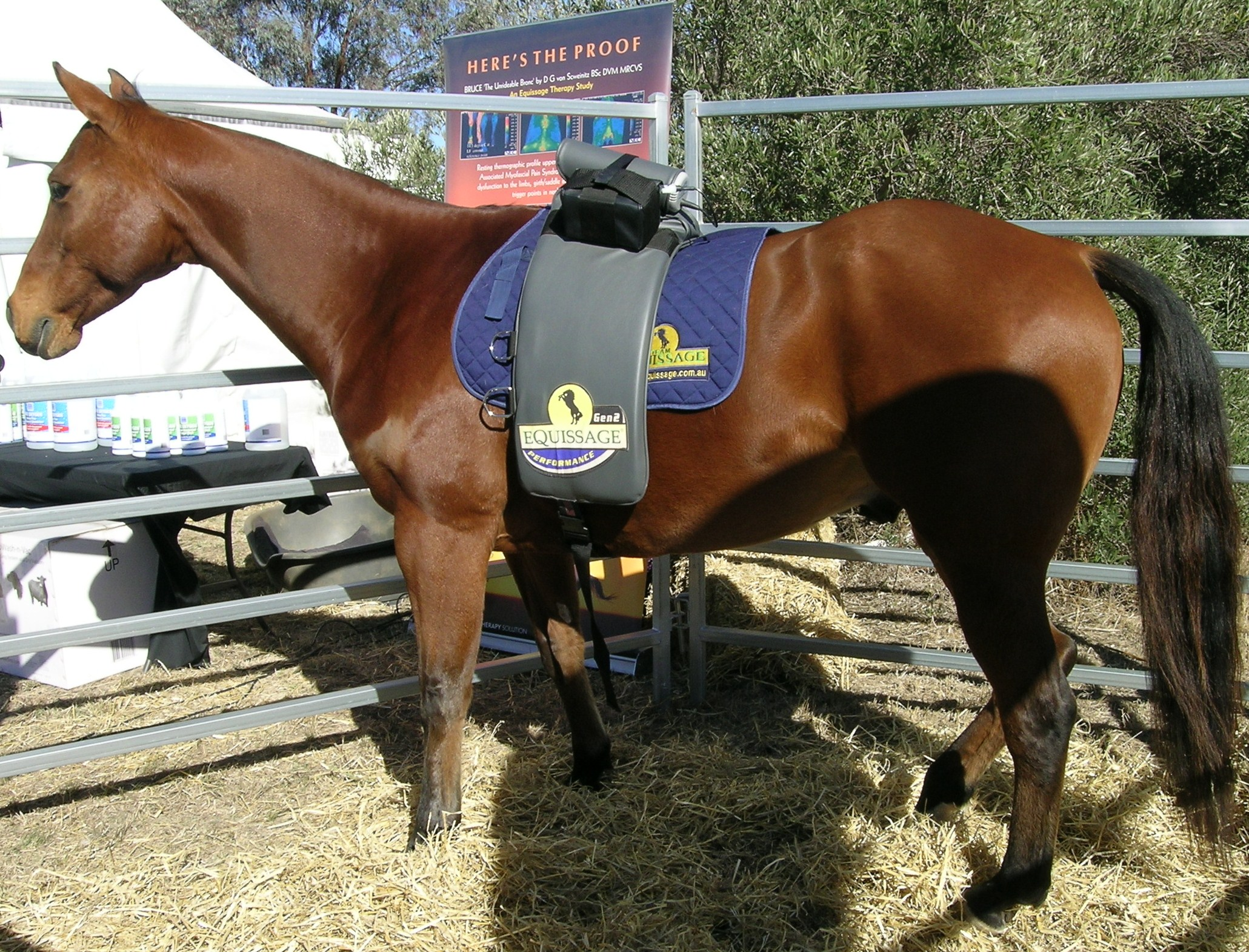 Equine massage back pack, AgQuip, Gunnedah, NSW